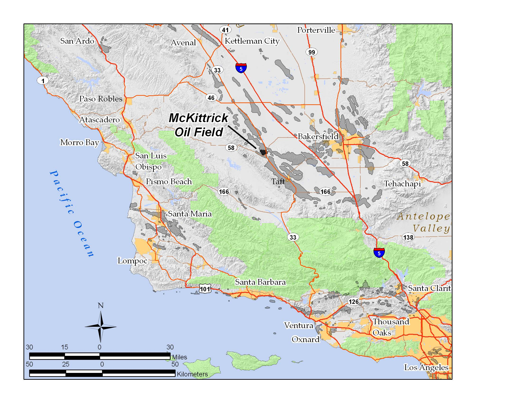 Map of McKittrick Oil Field, made by me, using ArcGIS 9.2; all data shown on this map is in the public domain; GFDL